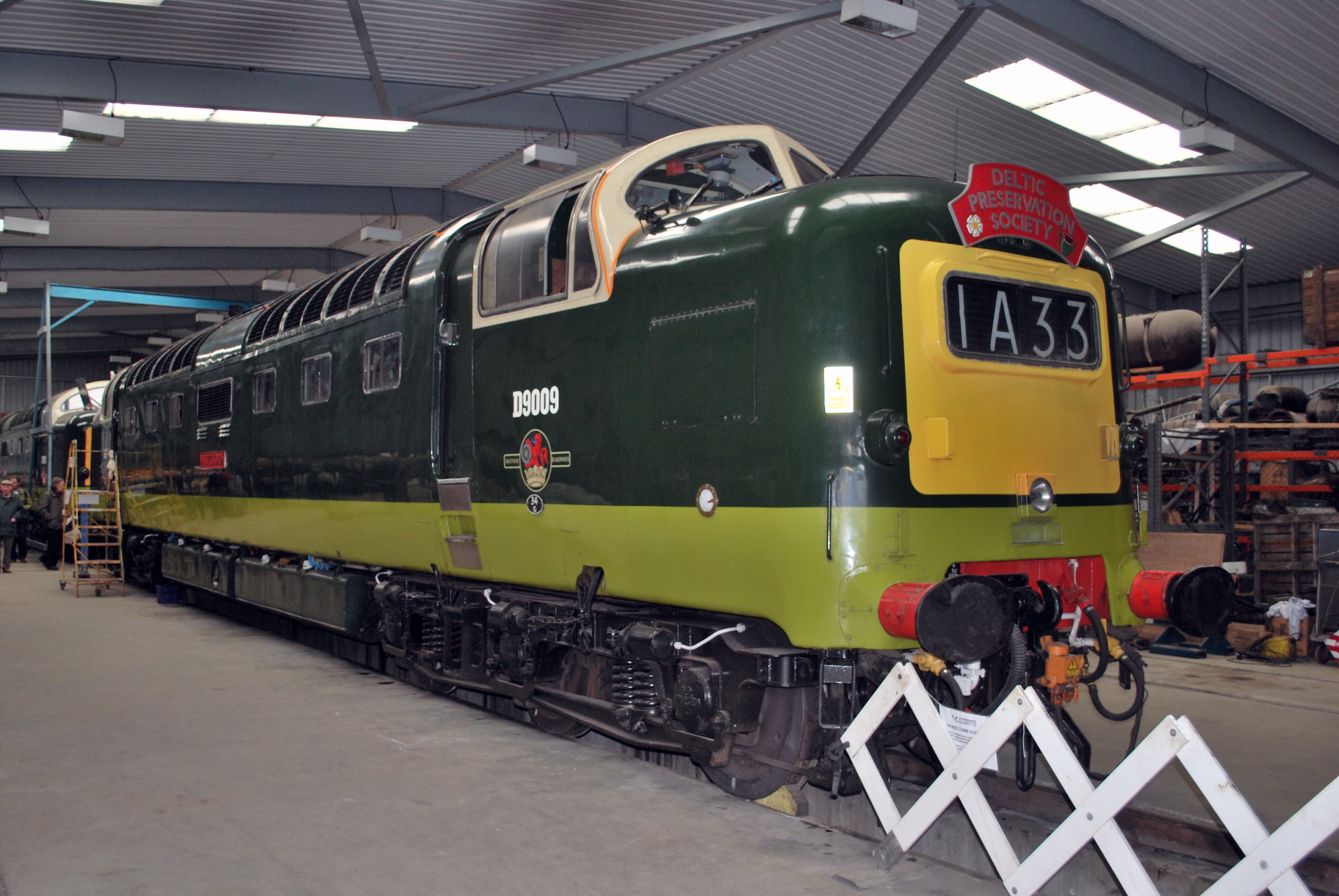 Preserved English Electric Class 55 "Deltic" 3,300 hp Co-Co No.D9009 "Alycidon" (later 55 009) in BR green livery at Barrow Hill 04/12.